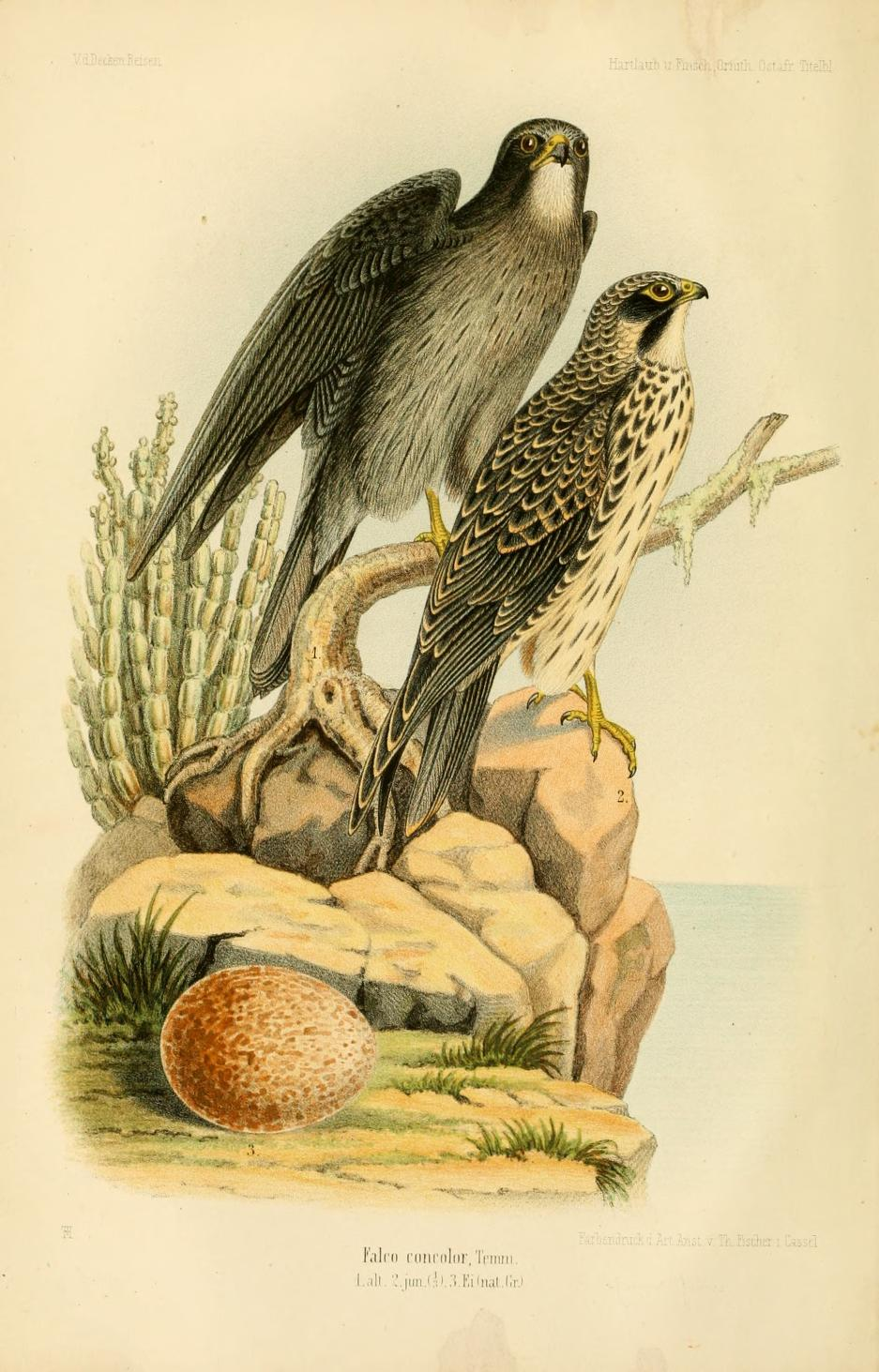 Falco concolor